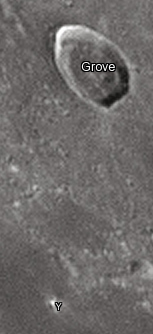 Grove lunar crater as seen from Earth with satellite craters labeled